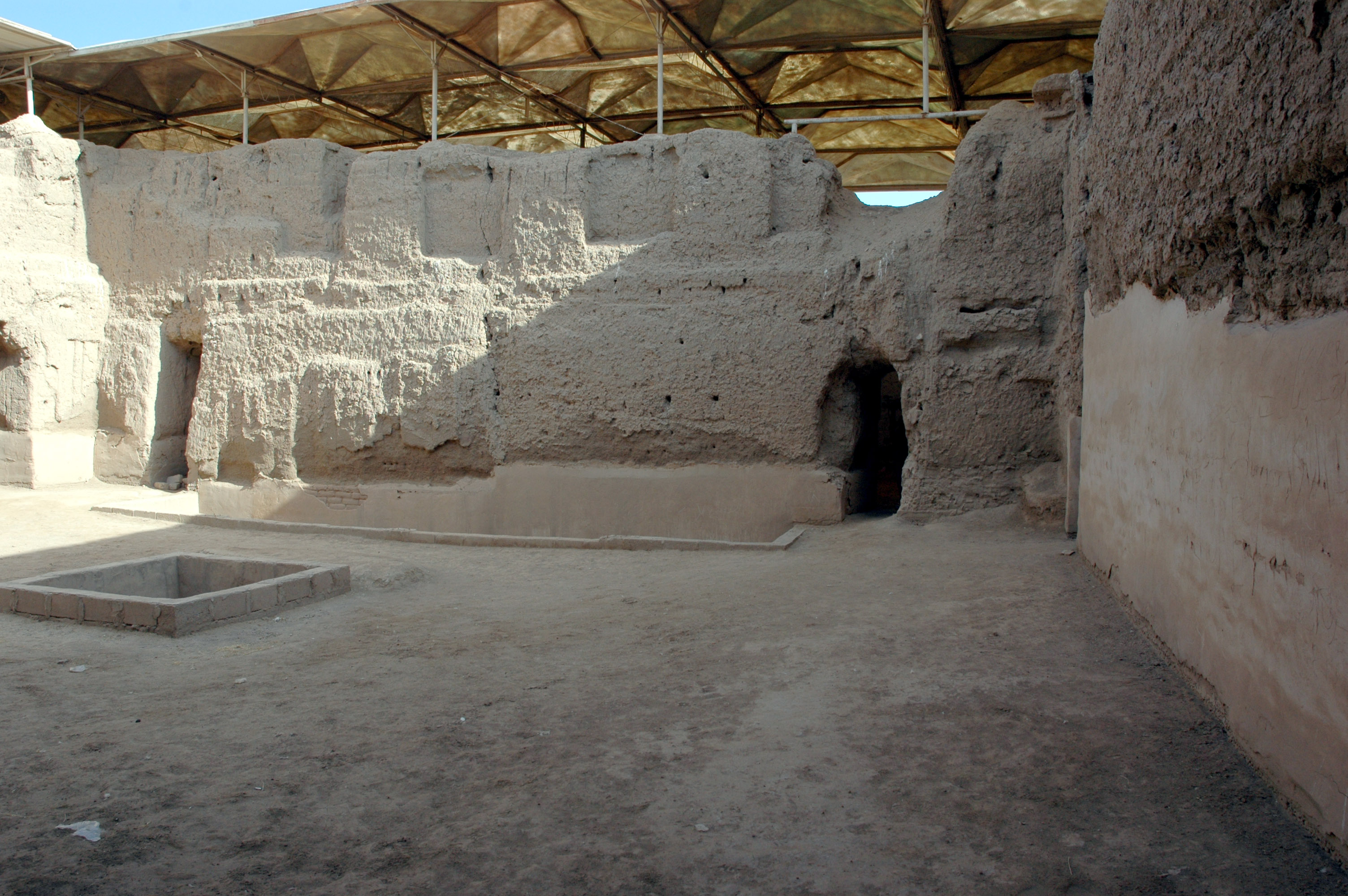 Courtyard near the throne hall in the Zimri-Lin palace, Mari in 2004